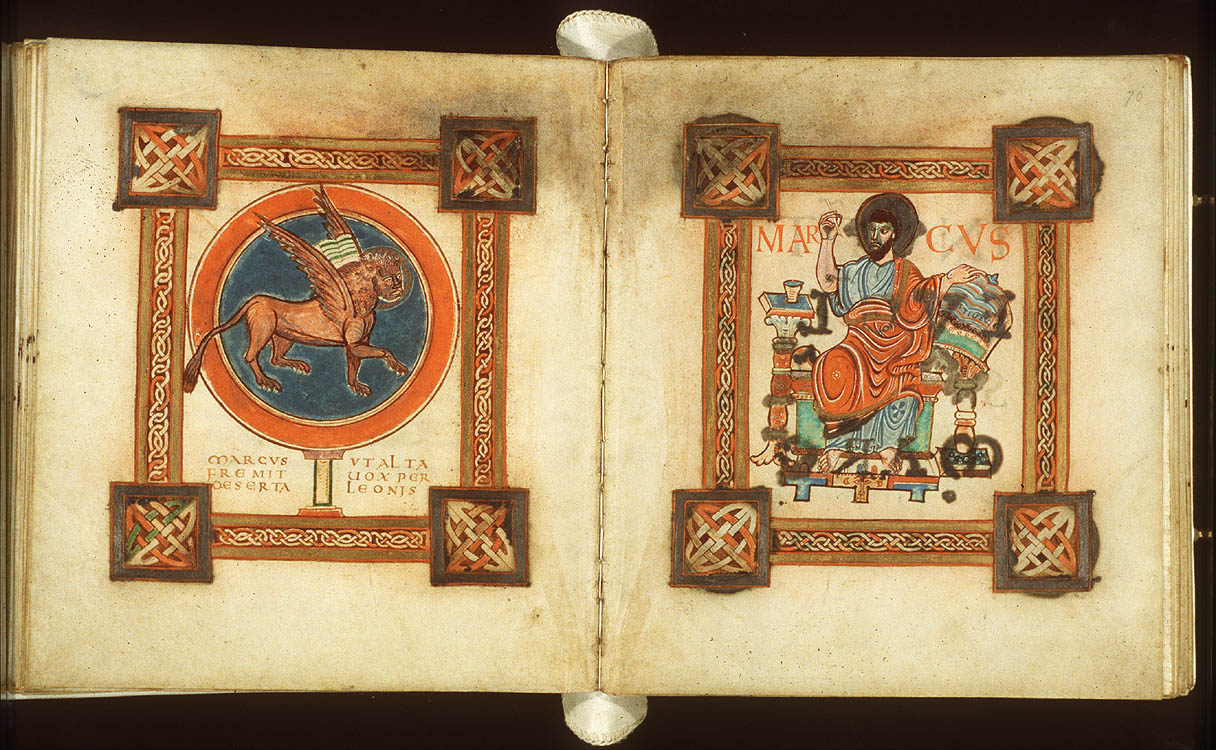 Fol. 69v and 70r Egmond Gospels. Evangelist symbol of Mark and Mark himself.